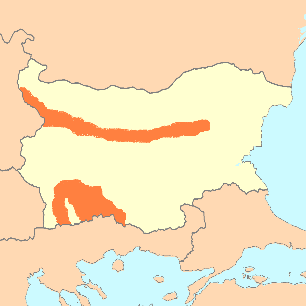 Karakachan horse areal